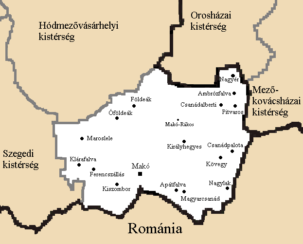 The subregion of Makó on the map, marking the settlements and the neighbouring subregions.